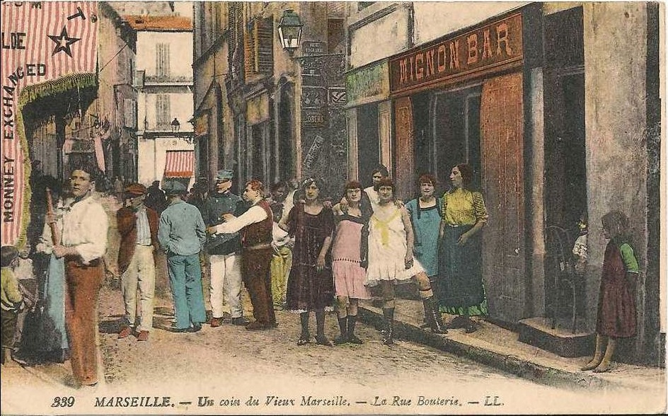 A group of filles de joie face the camera in front of the Mignon Bar on a street corner in old Marseilles. The women seem well integrated into the neighborhood; men are going about their business and a young girl stands casually against the wall on the front right. One fille with a foot on the curb displays her bare legs.